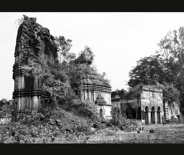 Chandrakona